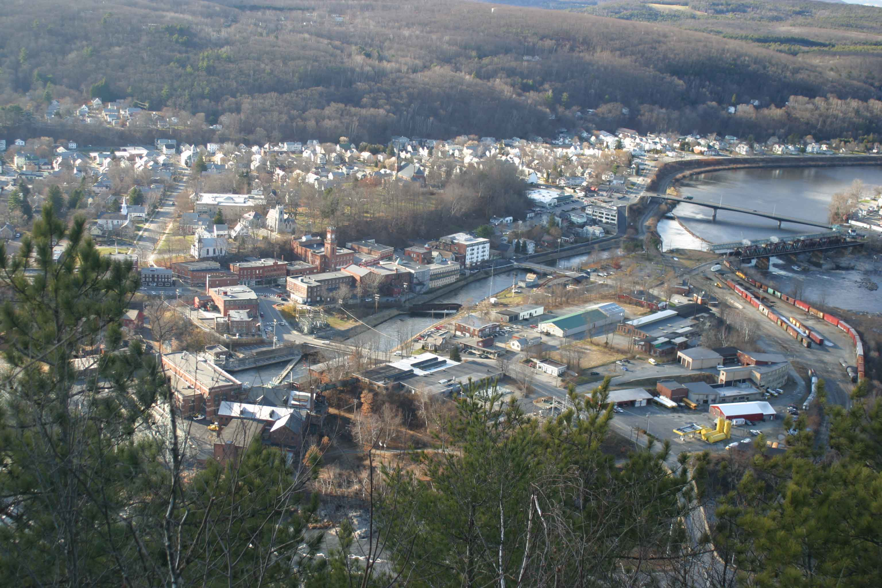 Village of Bellows Falls as seen from Fall Mountain in the early spring. The Connecticut River is on the right.